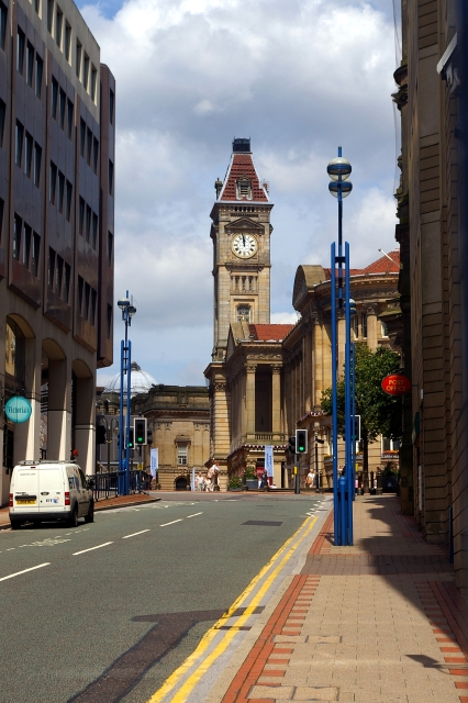 Big Brum from Hill Street The city's iconic clock, complement to Westminster's Big Ben, is about to strike noon.